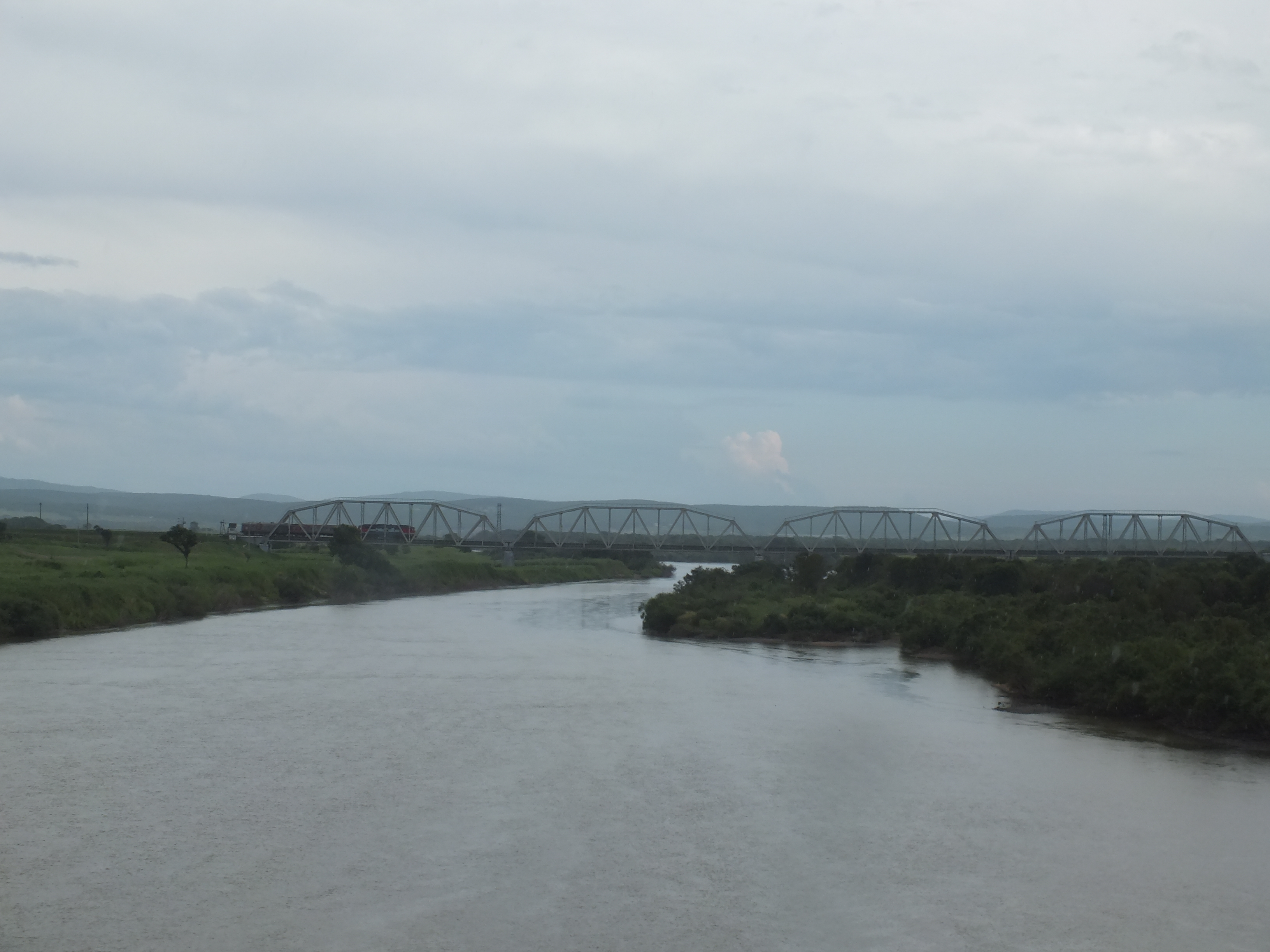 Terekhovka Primorskiy kray